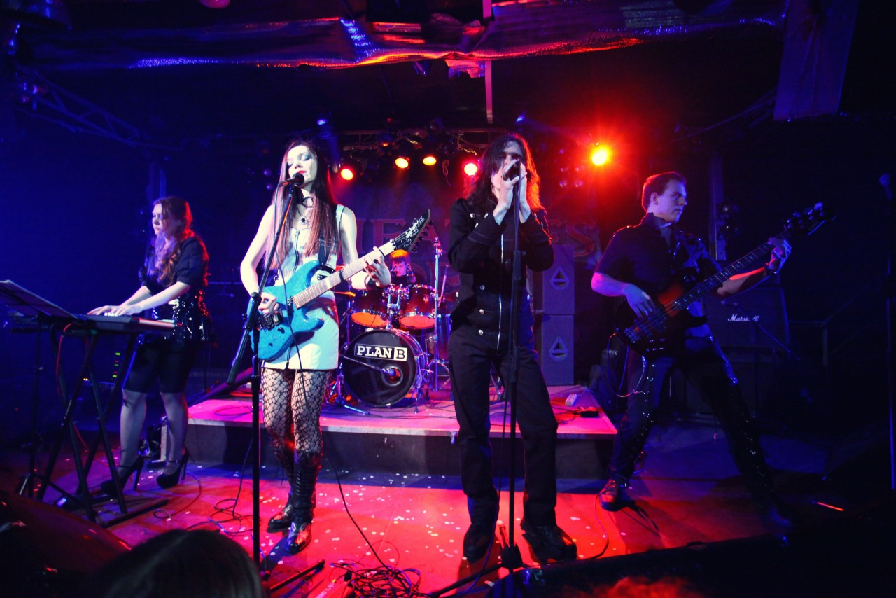 Fright Night, Plan B club, 16.4.2011